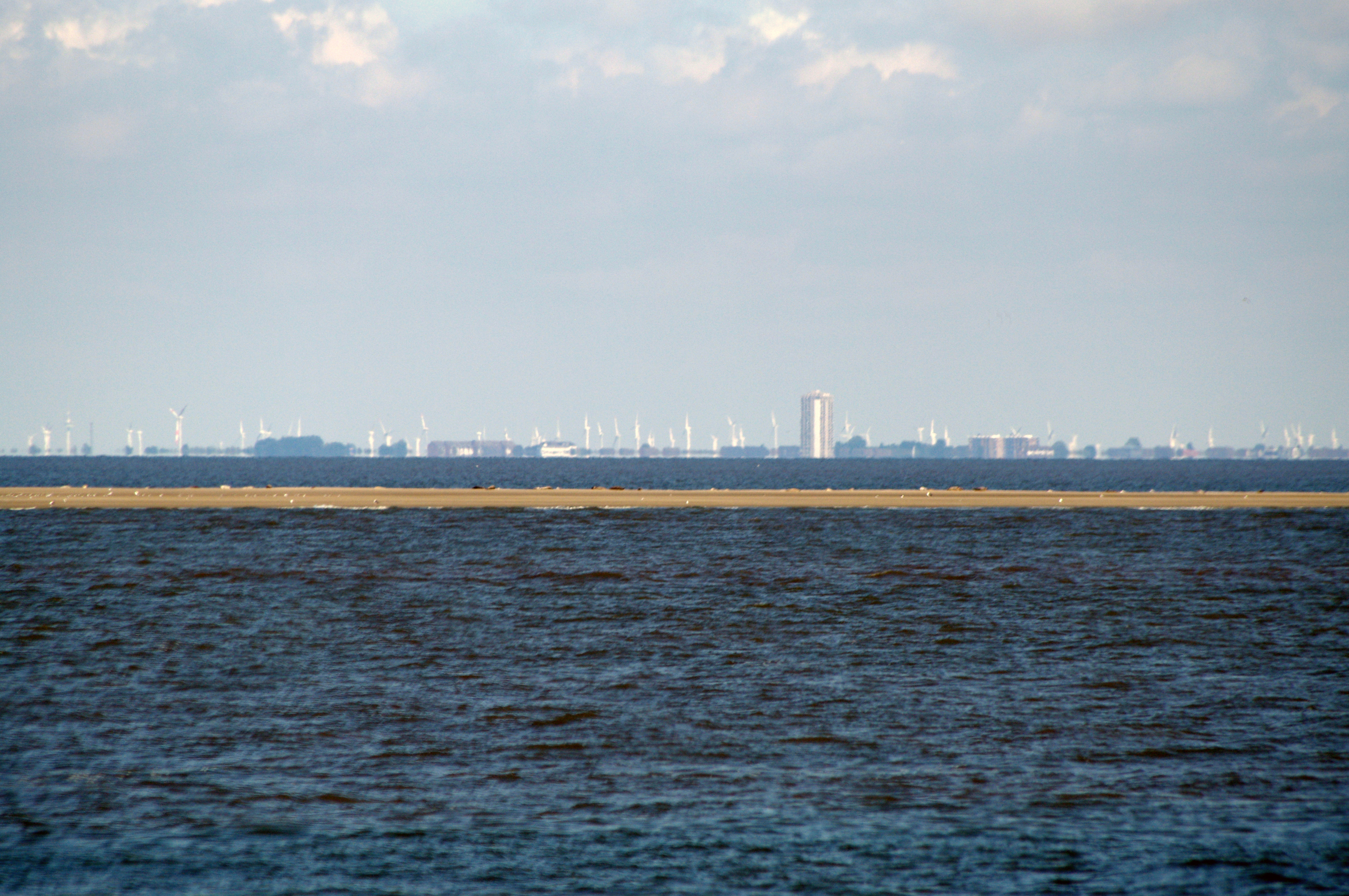 Sandbank Tertius with harbour seals. In the background Büsum.